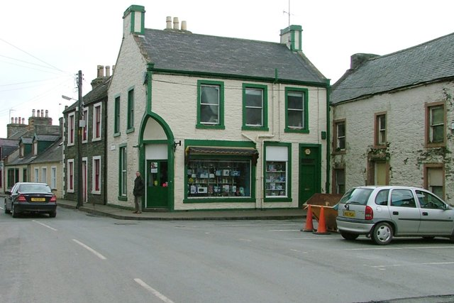 Corner Shop